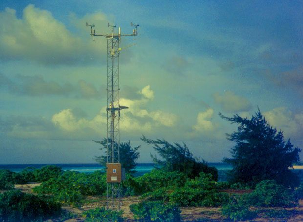 weather station on Oroluk Island, Oroluk (Atoll), Caroline Islands, Pacific Ocean